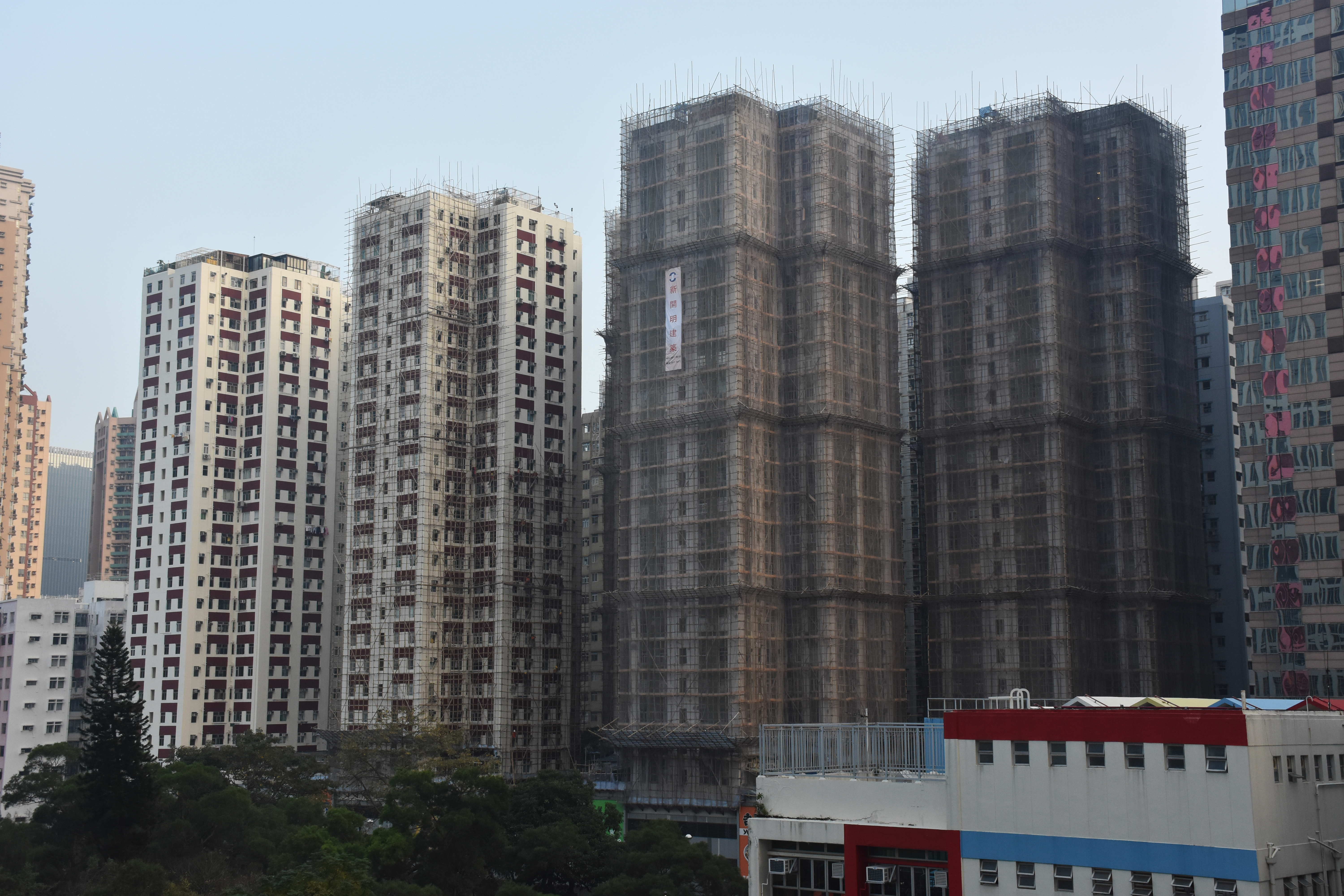 Healthy Gardens, North Point